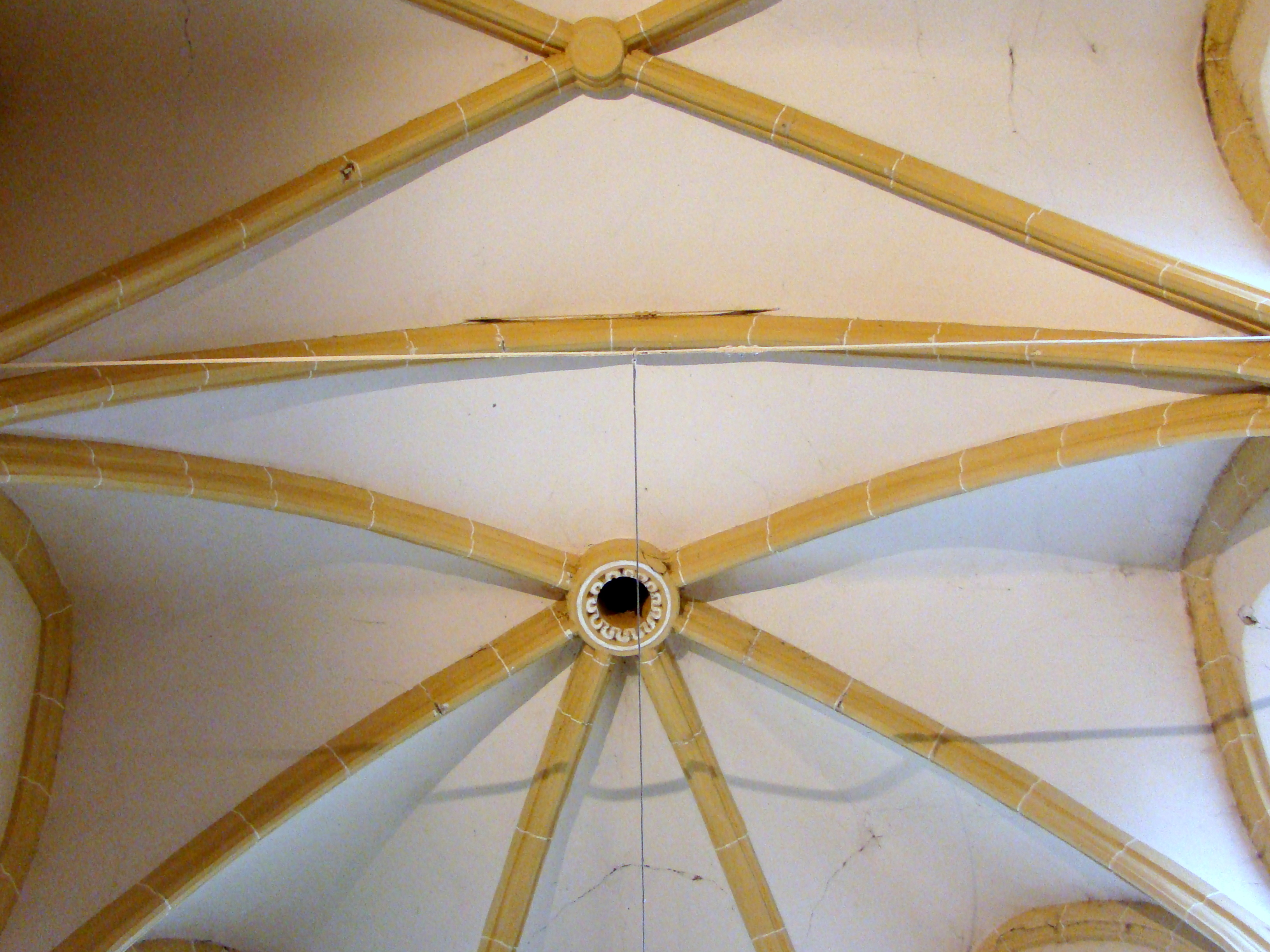 Lutheran church in Feldioara, Brașov County, Romania